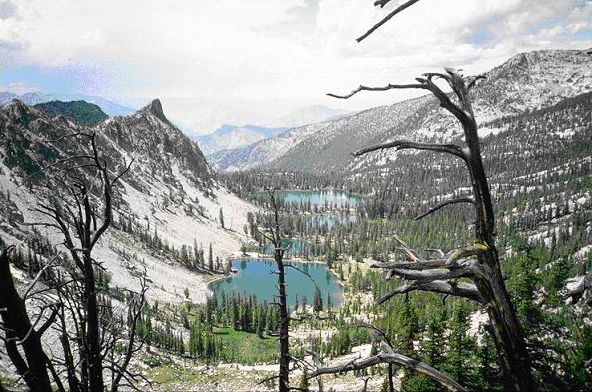 Frank Church-River of No Return Wilderness